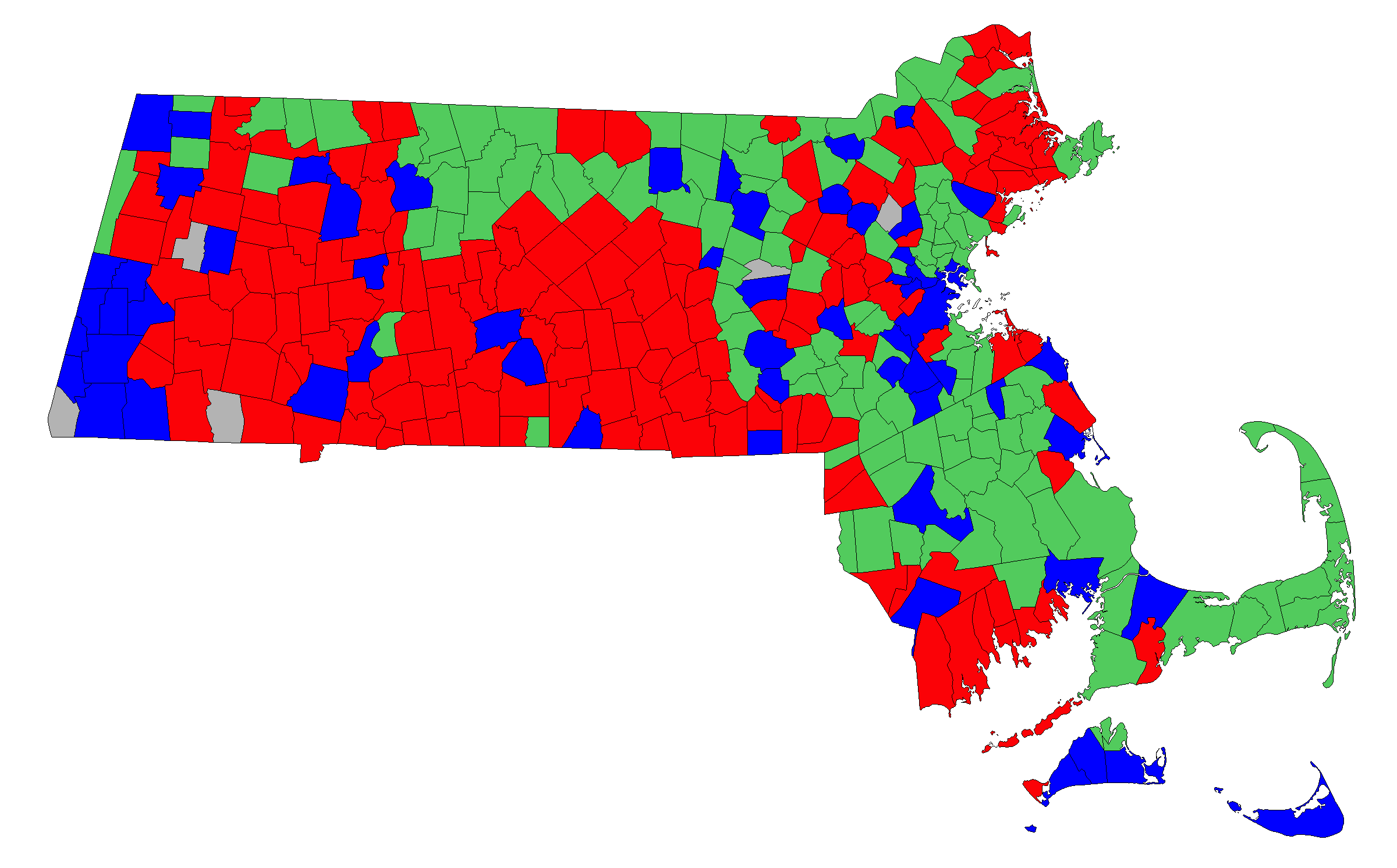 Results of the 1912 U.S. presidential election in Massachusetts. Towns in blue won by Woodrow Wilson, red by William Howard Taft, green by Theodore Roosevelt. Grey represents a tied town. Data procured at